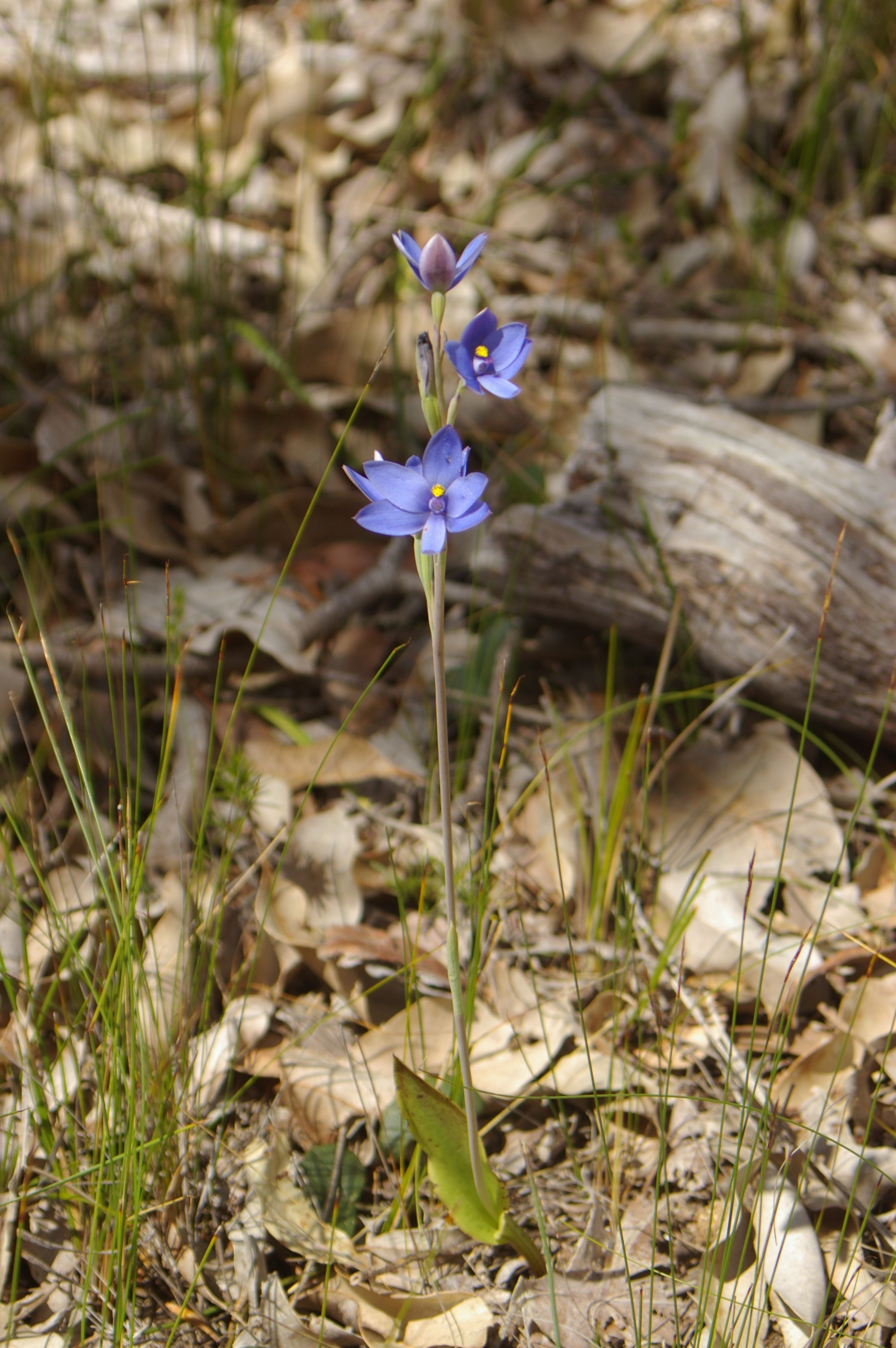 Thelymitra crinita - Blue Lady Orchid